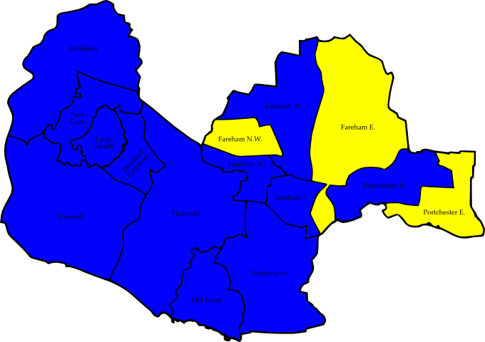 A map of the results of the 2008 Fareham Council election. Colour legend by wards won: Conservative party Liberal Democrats